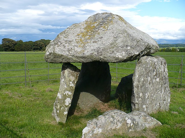 Bodowyr Burial Chamber [1] This burial chamber would originally have been covered by a mound of earth or stones. For a nearby example of this see 863700.